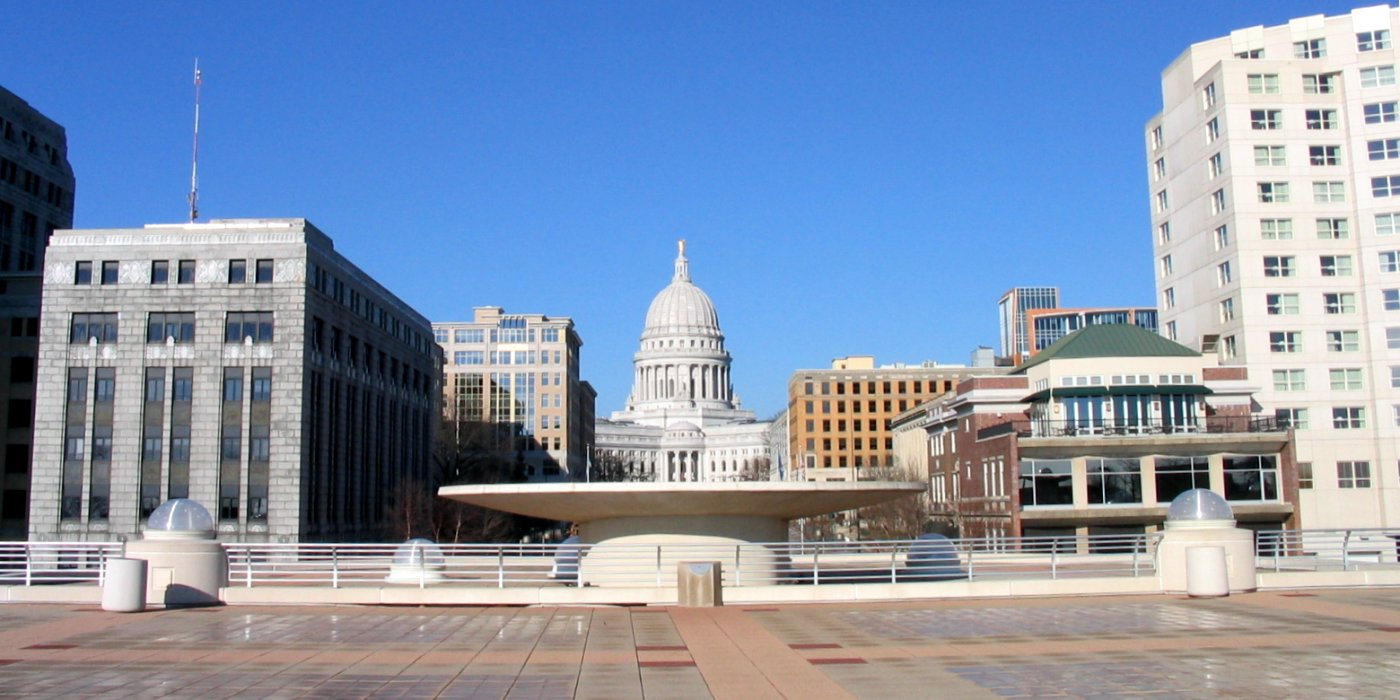 State Capitol of Madison, Wisconsin as viewed from the Monona Terrace Source: Image taken by Dori License: Dual GFDL and CC